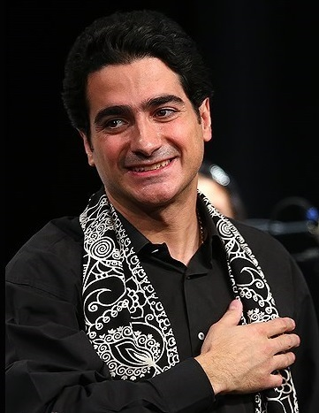 Iranian singer, Homayoun Shajarian during a concert in Milad Tower